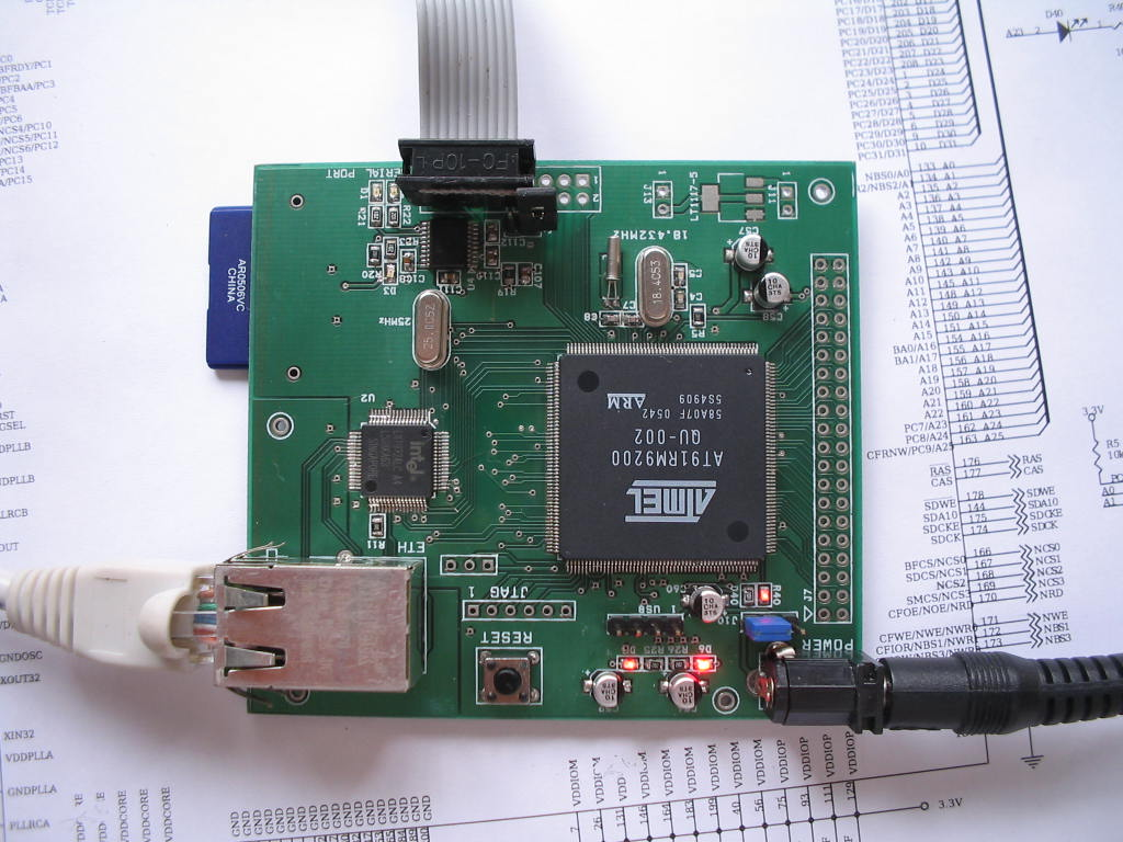 ECB AT91 single board computer.